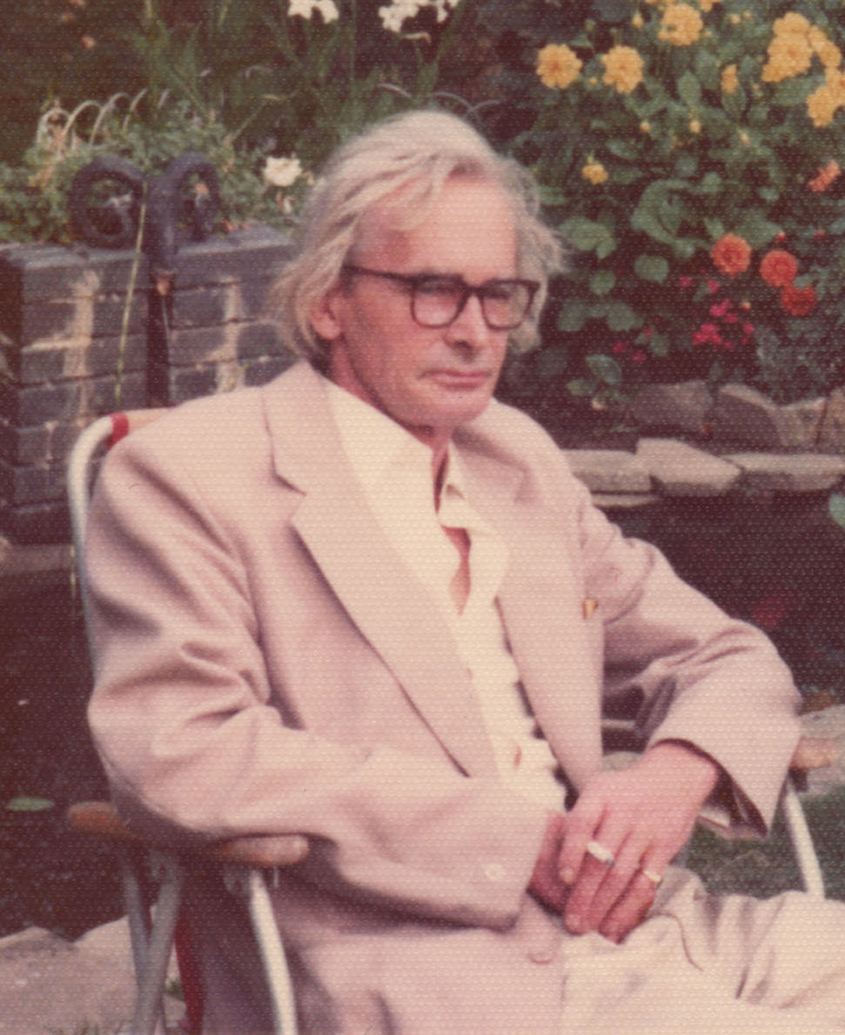 R. B. Freeman in London, July 30, 1974.